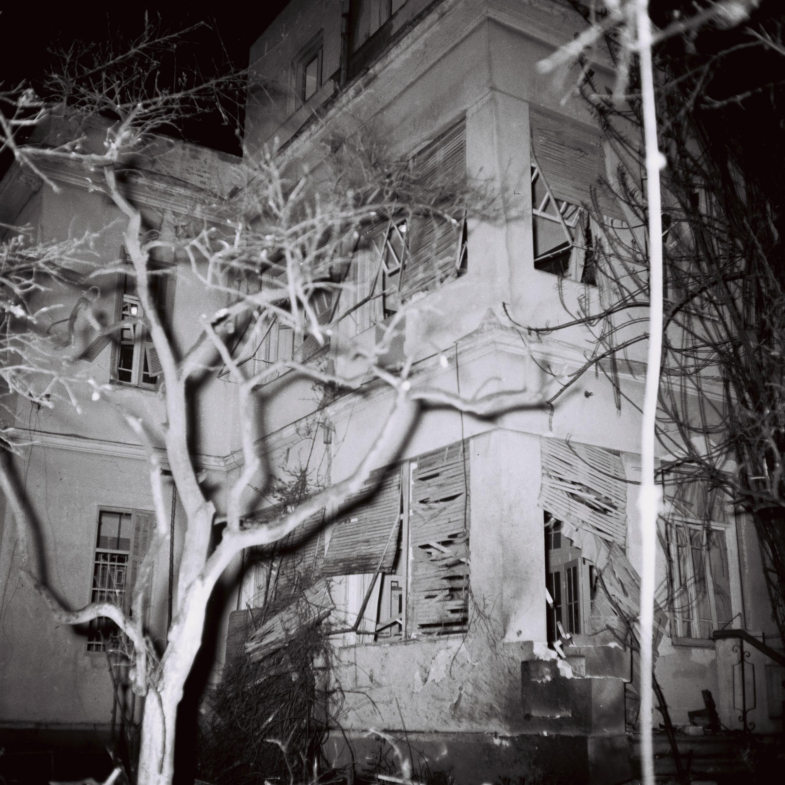 Soviet Russian embassy building after explosion of a bomb placed by a fanatic in the courtyard of the embassy, Tel Aviv.